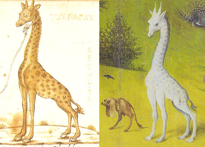 Comparison of giraffes in Cyriacus of Ancona's Egyptian Voyage (left) and Bosch's Garden of Earthly Delights (right)